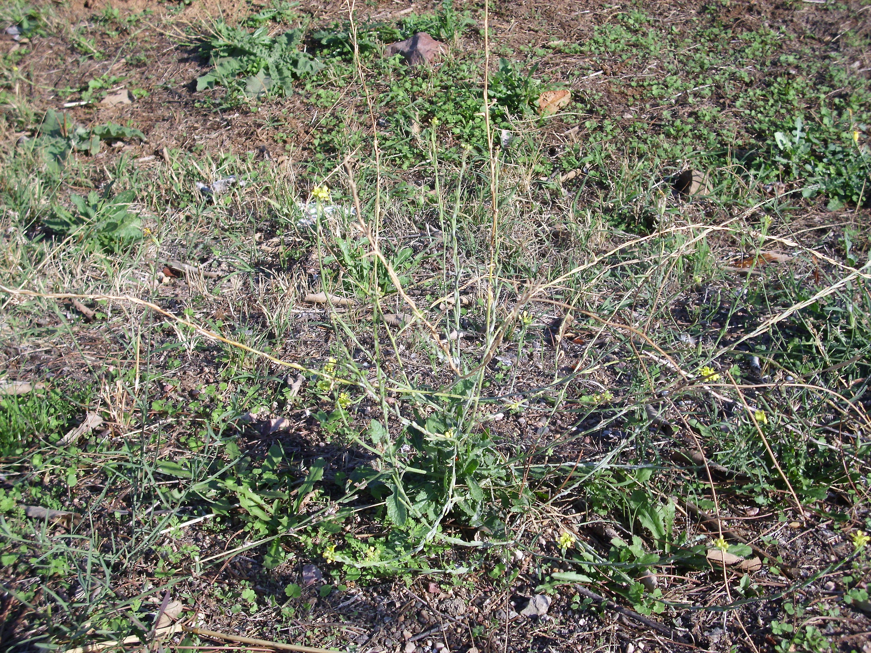 Hirschfeldia incana habit, Dehesa Boyal de Puertollano, Spain